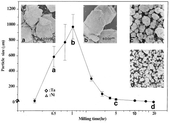 Narrow particle size distribution caused by tendency of small particles to weld together and large particles to fracture under steady-state conditions.